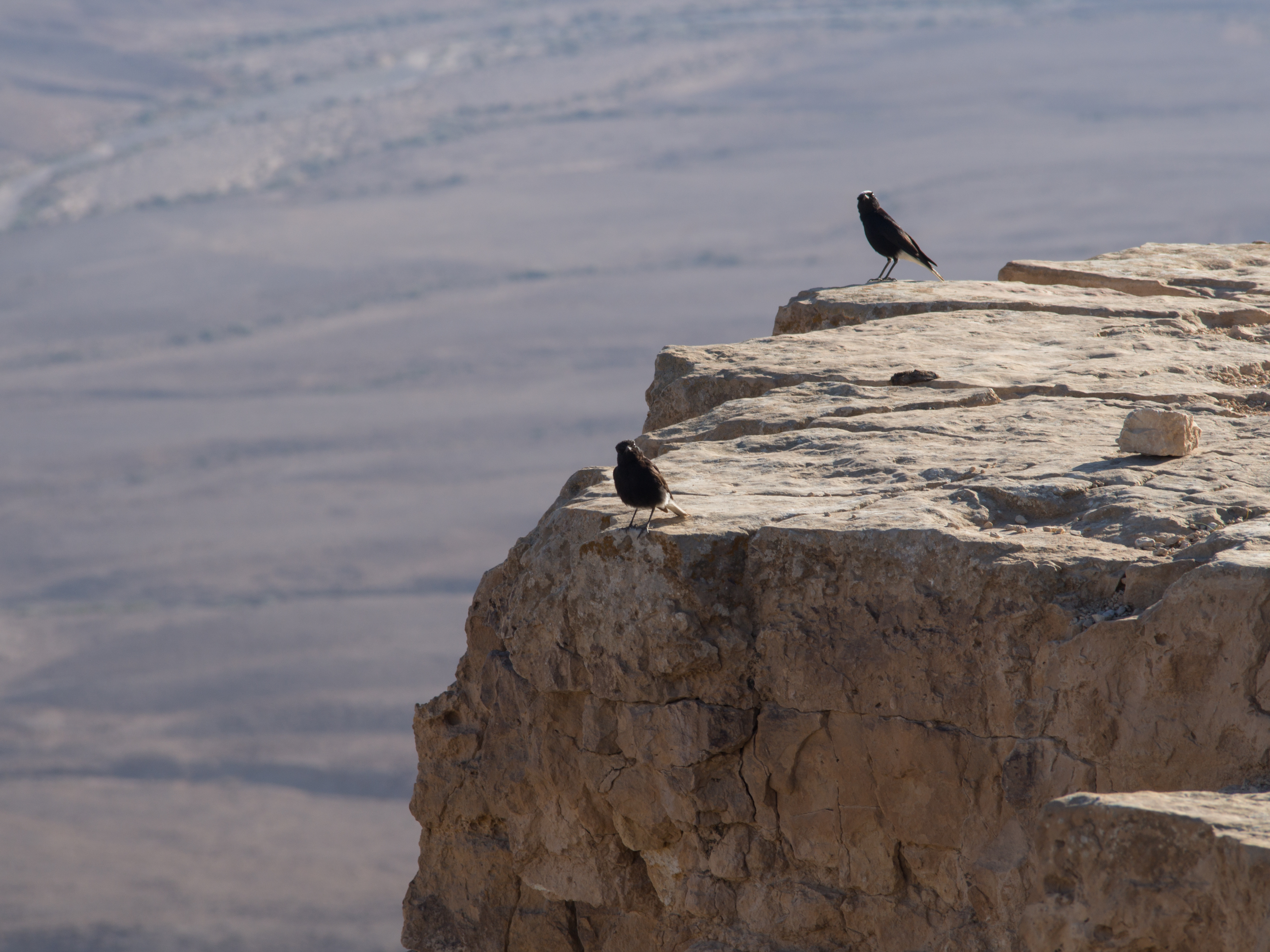 Two white-crowned wheatears (Oenanthe leucopyga), perturbed or curious, along a cliff of Makhtesh Ramon.